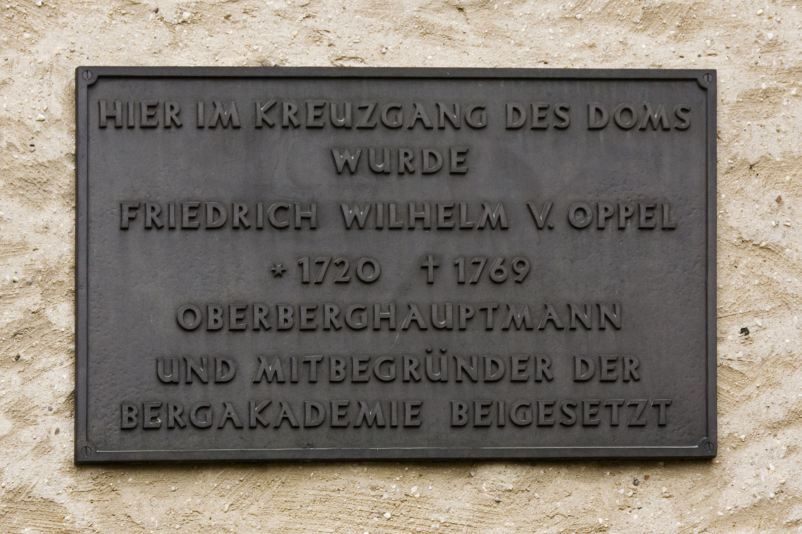 Friedrich Wilhelm von Oppel, plaque at his grave in Freiberg